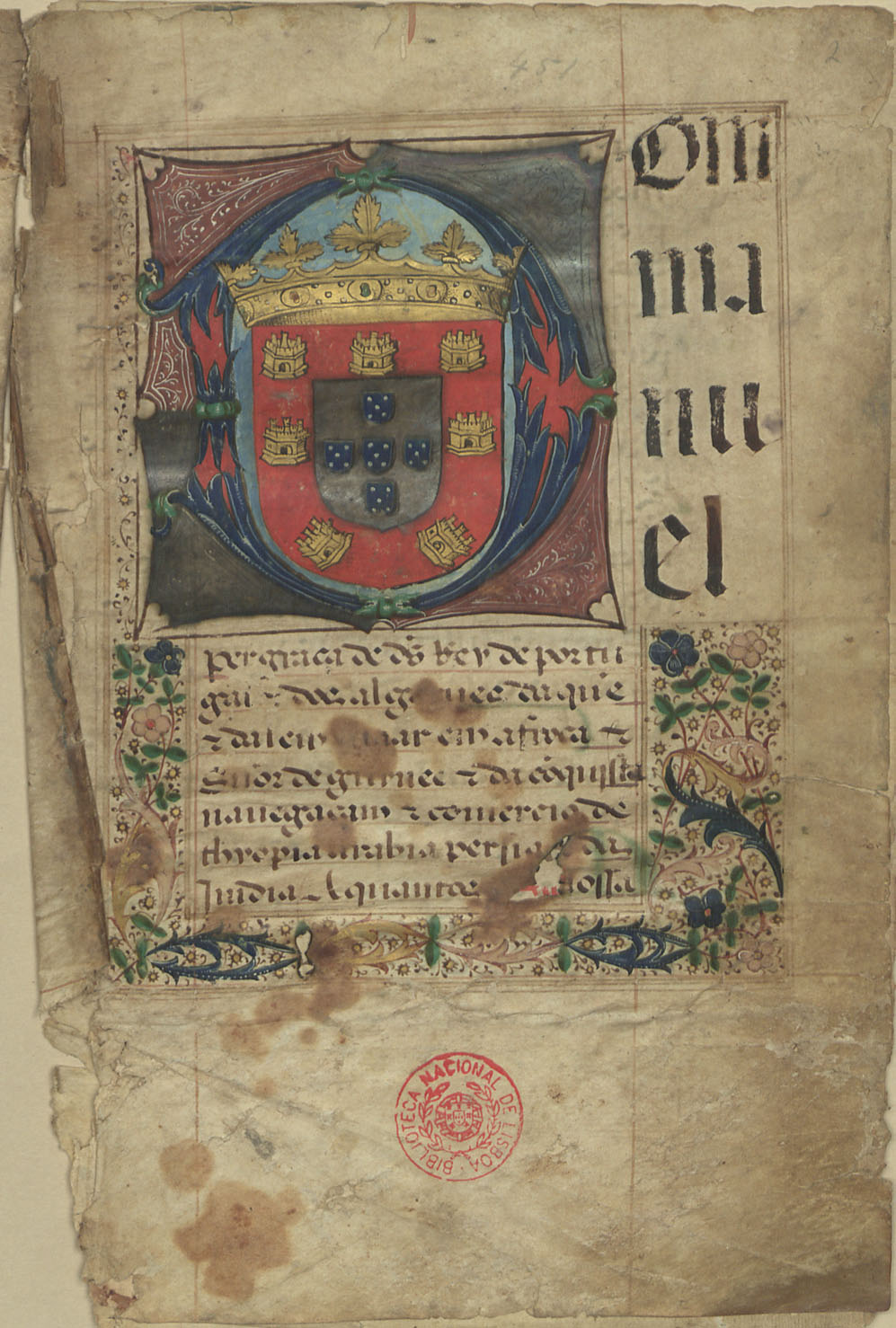 Town Charter of Sangalhos, dated 20 August 1514.